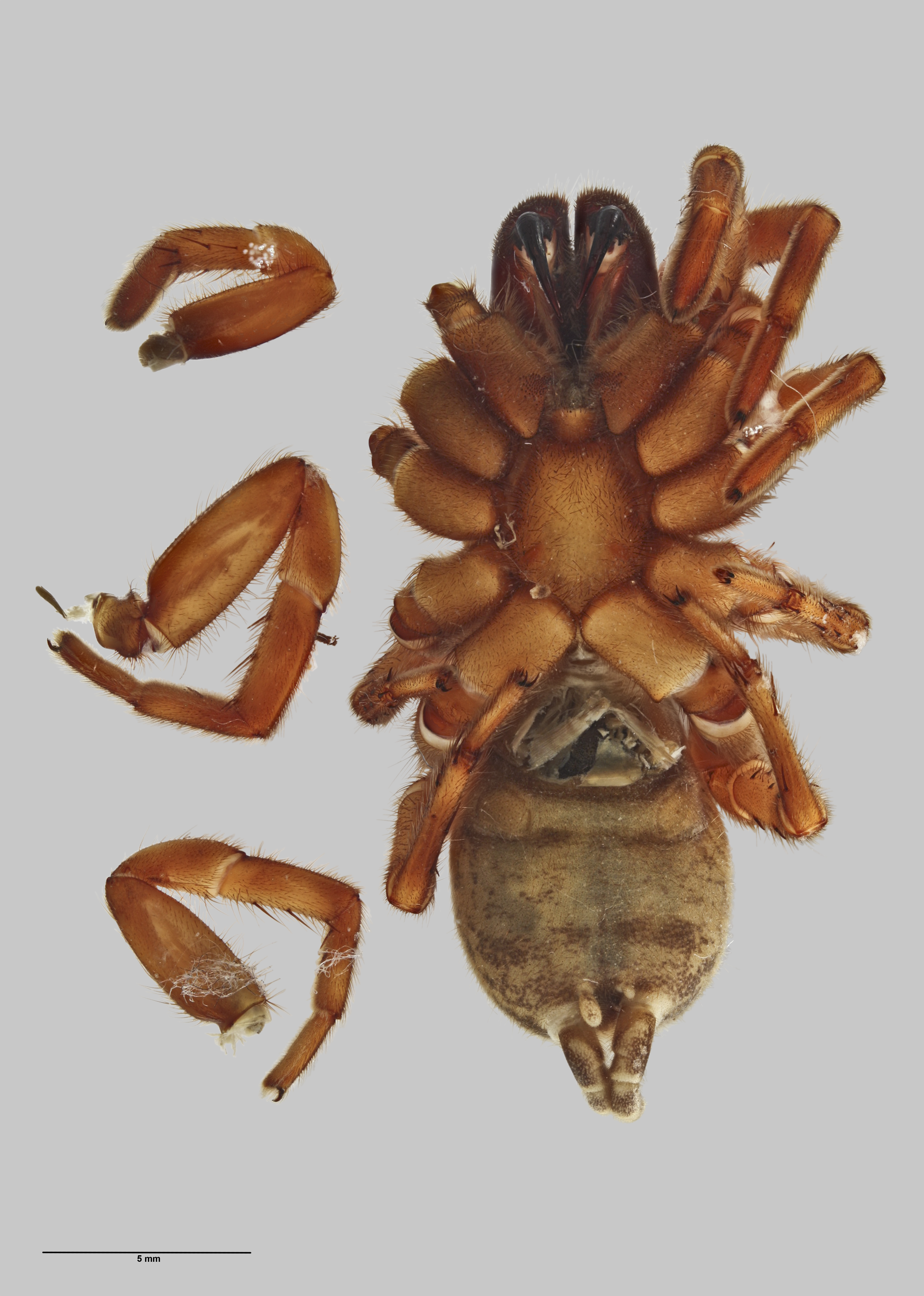 Female holotype specimen of Aparua regia AMNZ5046 (now know as Stanwellia regia) held at the Auckland War Memorial Museum.